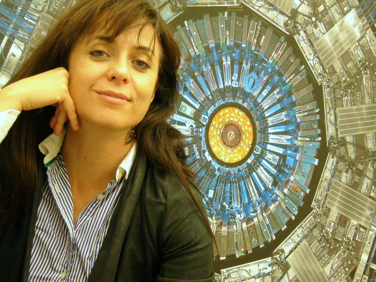 Photo of Prof. Maria Spiropulu at Caltech